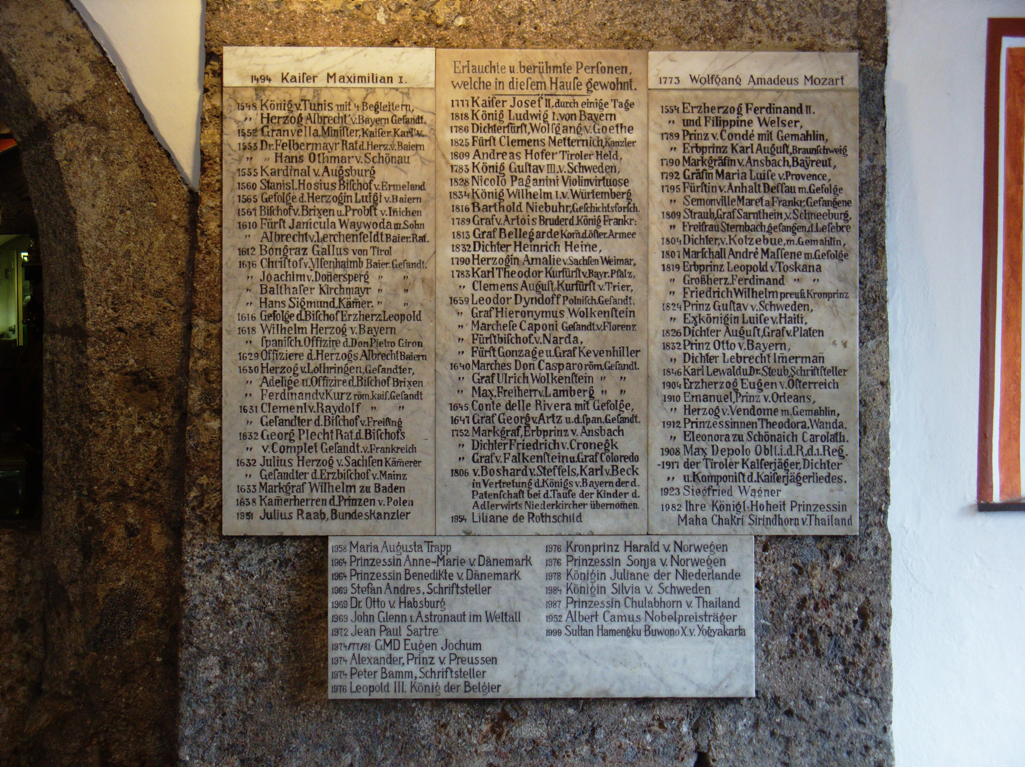 Hotel Goldener Adler, Innsbruck, marble guest plaque